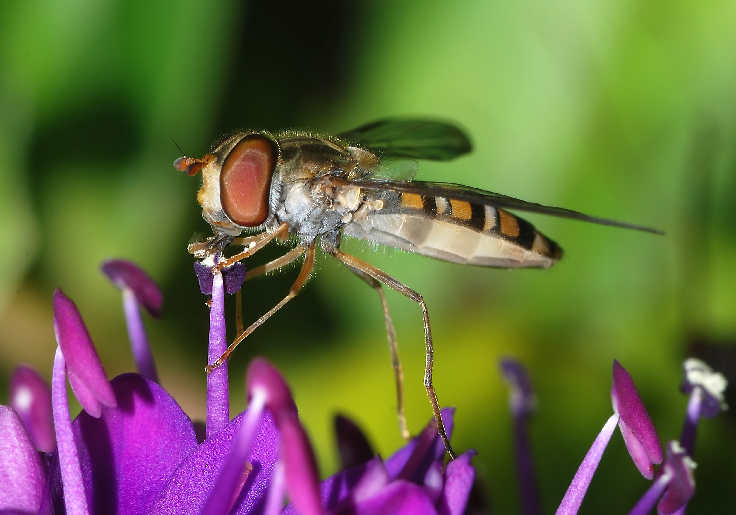 A female Marmelade Fly (Episyrphus balteatus) feeding on a Hebe sp. flower. Camera: Nikon D80 with Tokina AT-X 100mm Macro and 36mm extension ring Exposure: Manual, F/16, 1/80, ISO 100